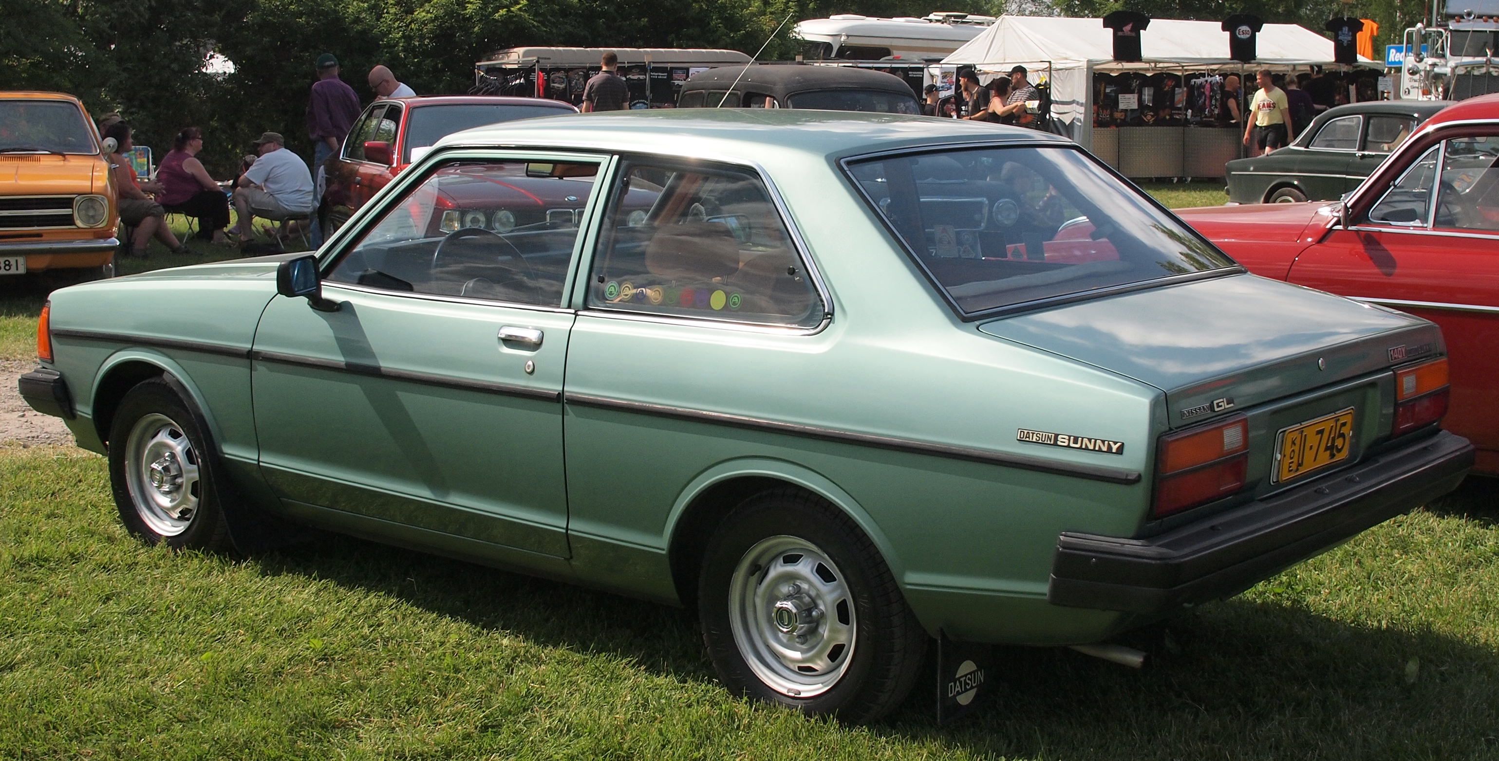 Datsun Sunny 140Y 1980 photographed in 2013 Old Timer Run in Mikkeli, Finland